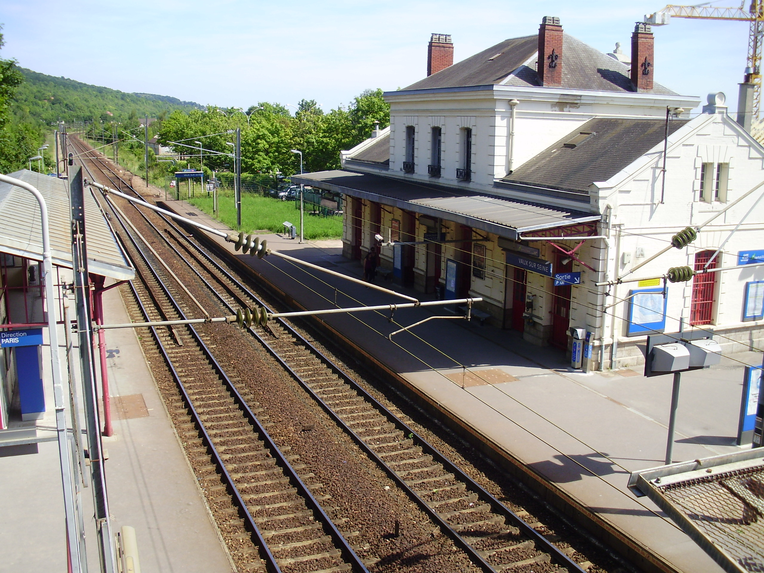 Vaux-sur-Seine station, Yvelines, France (view towards Paris, left platform to Paris, right platform to Mantes-la-Jolie)